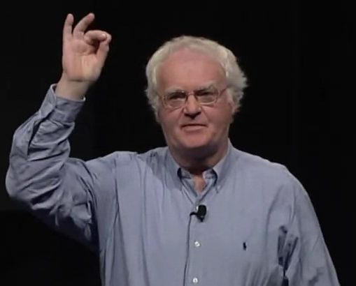 Richard Gill at TEDxSydney, 2011, frame from File:TEDxSydney - Richard Gill - The Value of Music Education.webm